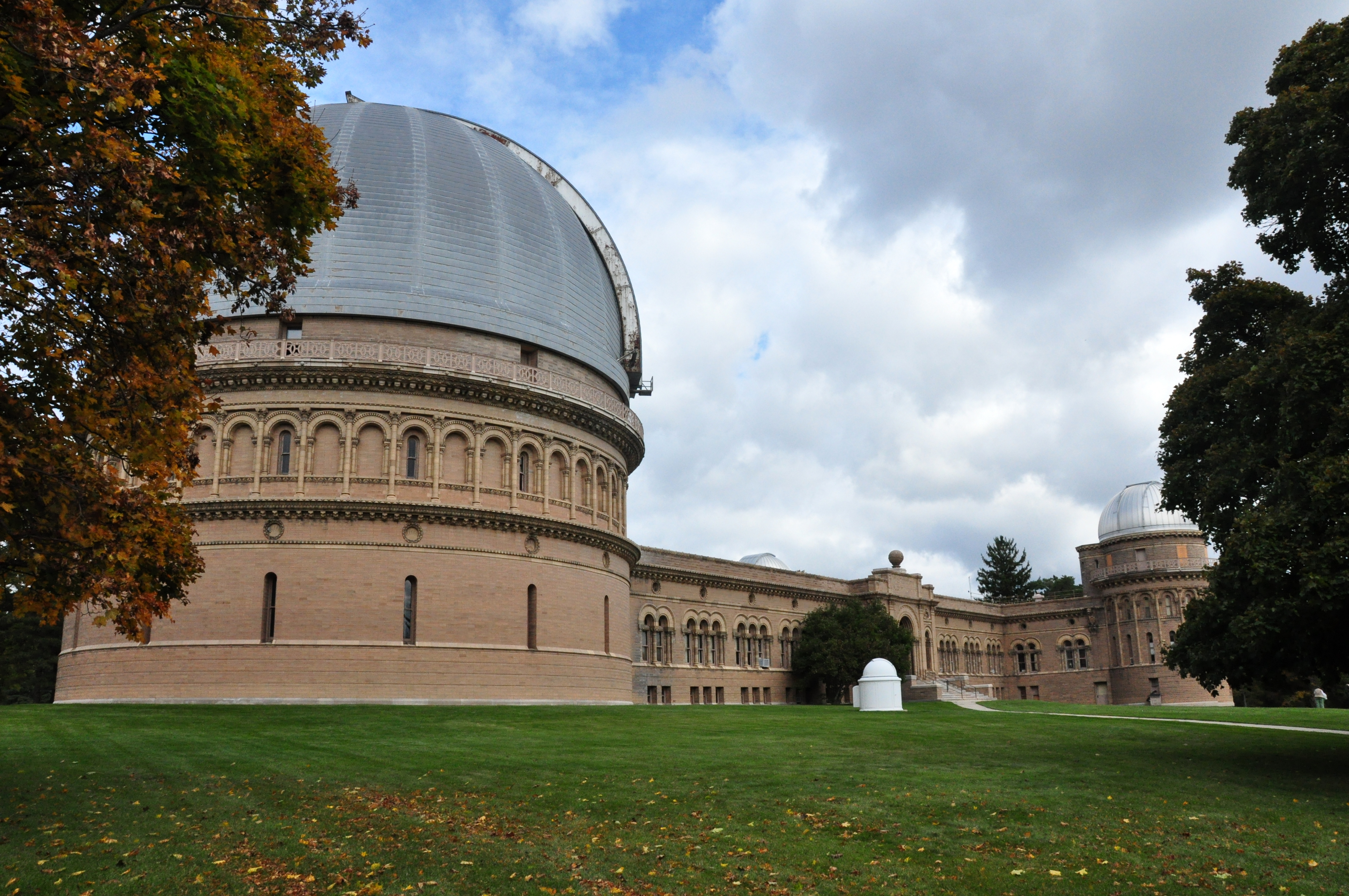 Yerkes Observatory, back side